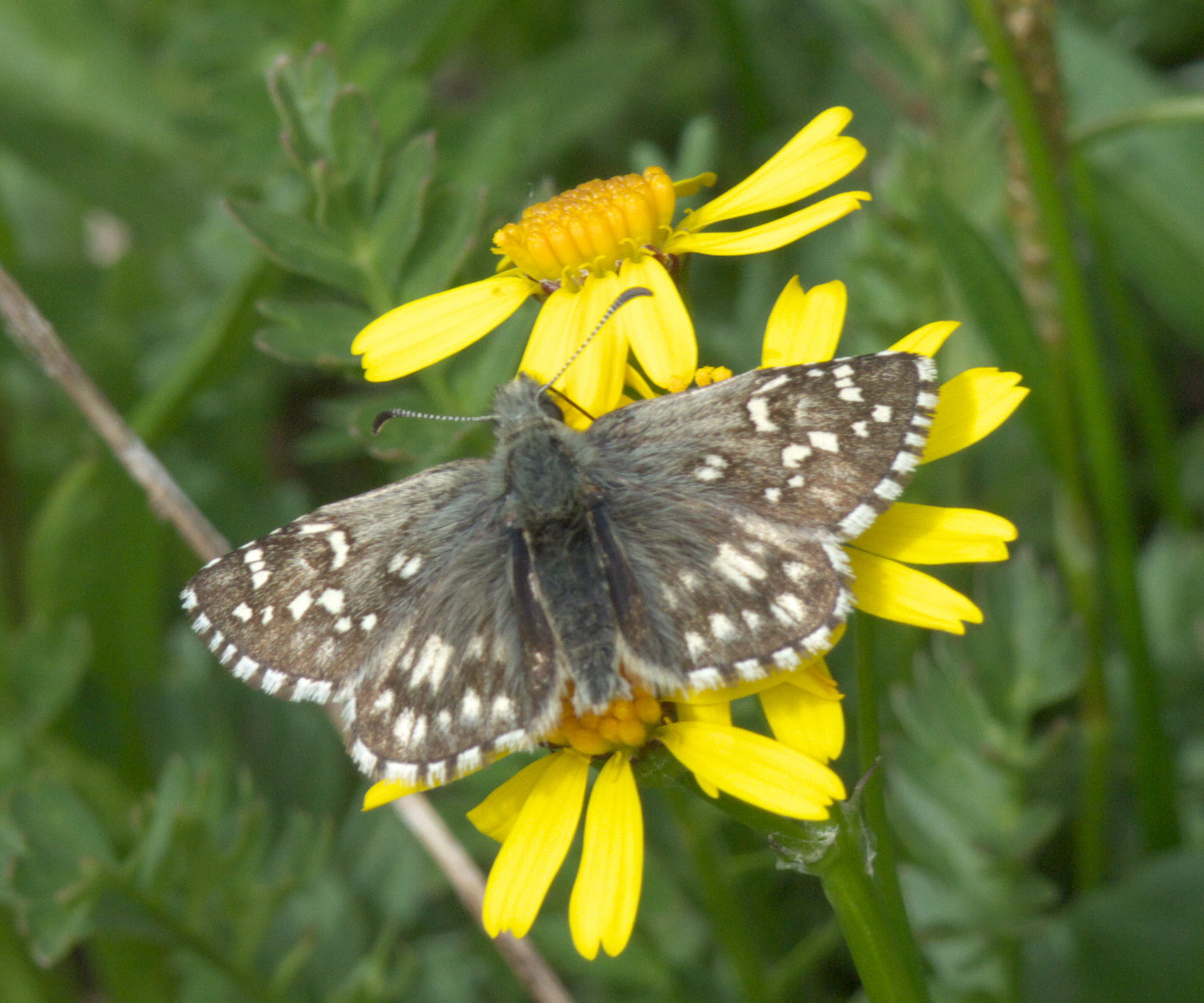 Pyrgus centaureae loki, Species: Grizzled Skipper - Hodges #3962, Pyrgus centaureae loki, ID Confidence: 87